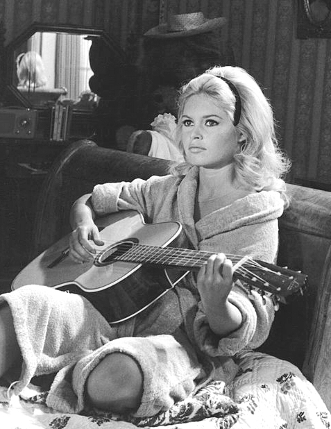 AA344462 cucina 433 308 300 5109 3633 RGB